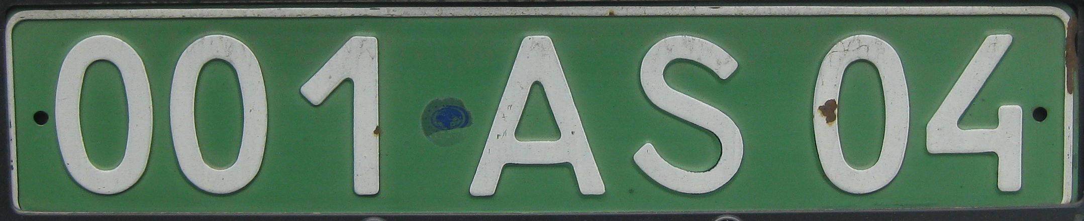 Georgian license plate for foreign organisations